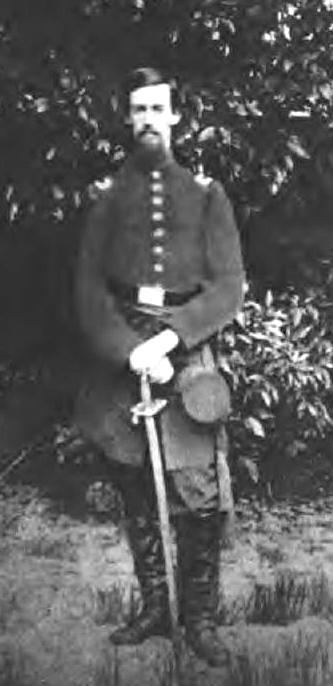 William Thompson Lusk (1838-1897), during his days in the United States Volunteers during the American Civil War.